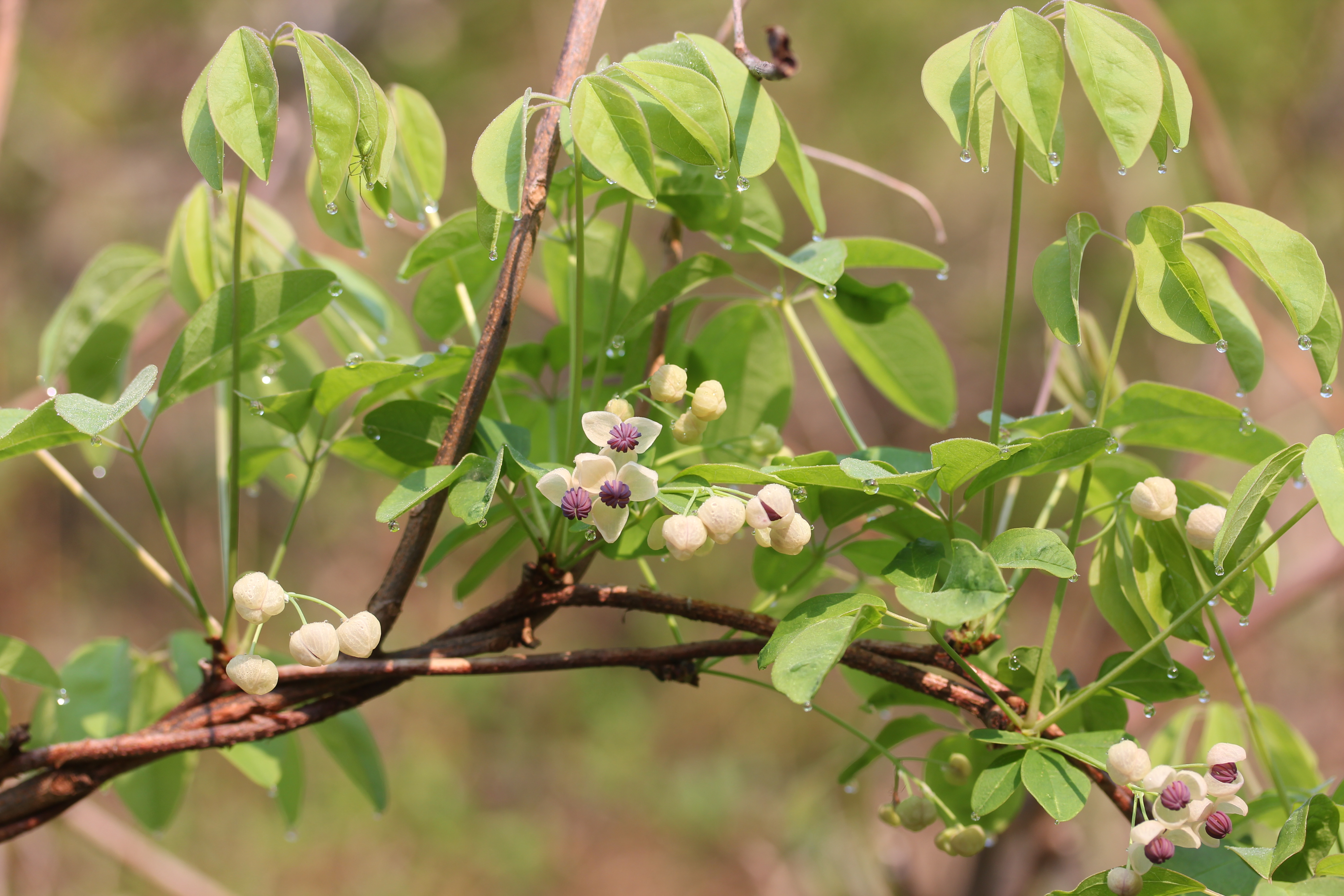 Chocolate Vine (Akebia quinata (Houtt.) Decne. ) in Mount Nōgōhaku, in Motosu, Gifu prefecture, Japan.